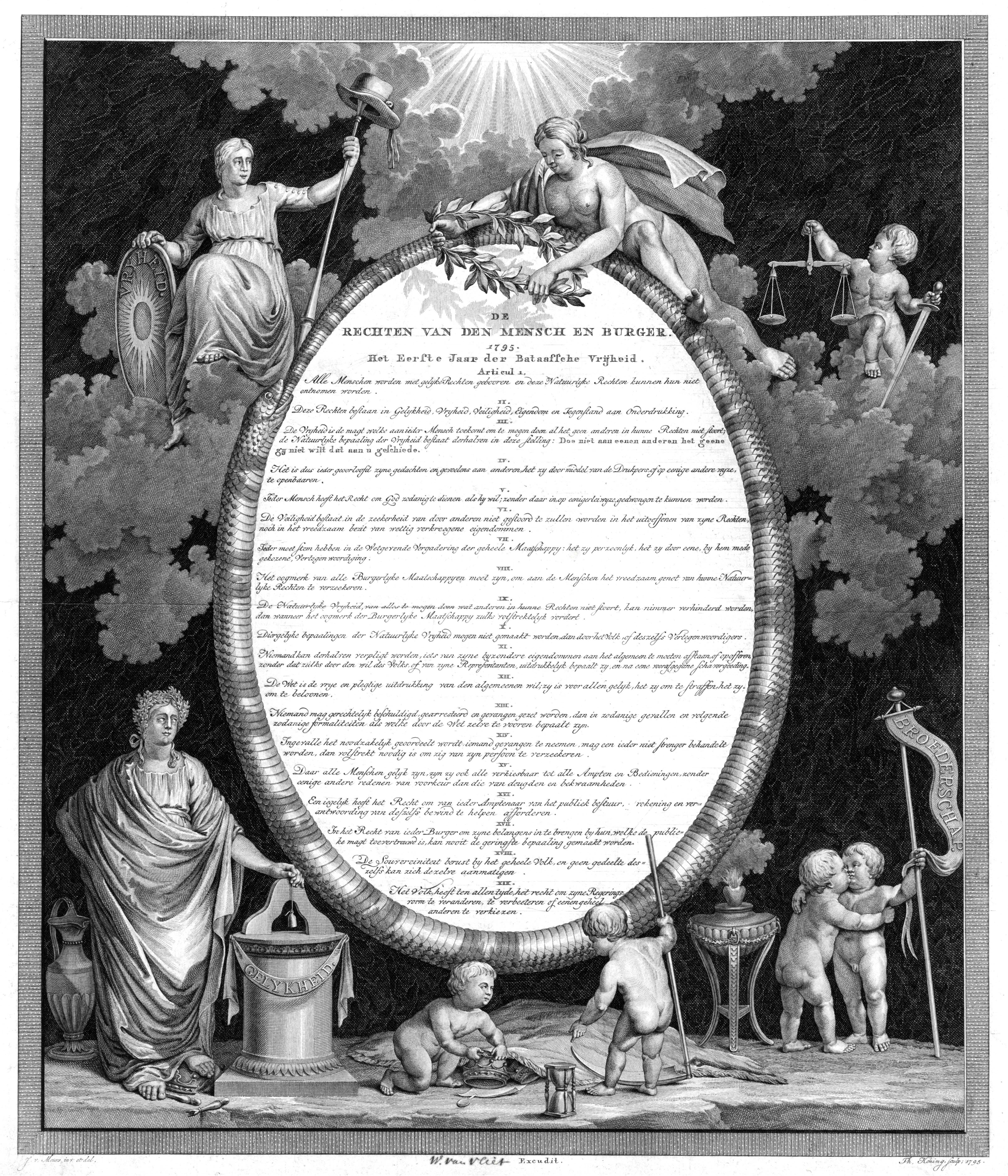 The rights of man and of the citizen, one below the other in 19 articles, within an oval formed by a snake biting its own tail. Above Liberty and the naked truth, at the bottom the altar of Equality and putti with the banner of Brotherhood. These Rights proclaimed on January 21, 1795 in The Hague by the Provisional representatives.